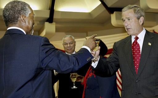 U.S. president Bush and South African president Mbeki, touching glasses during the former's visit to South Africa and other African countries, July 9, 2003.